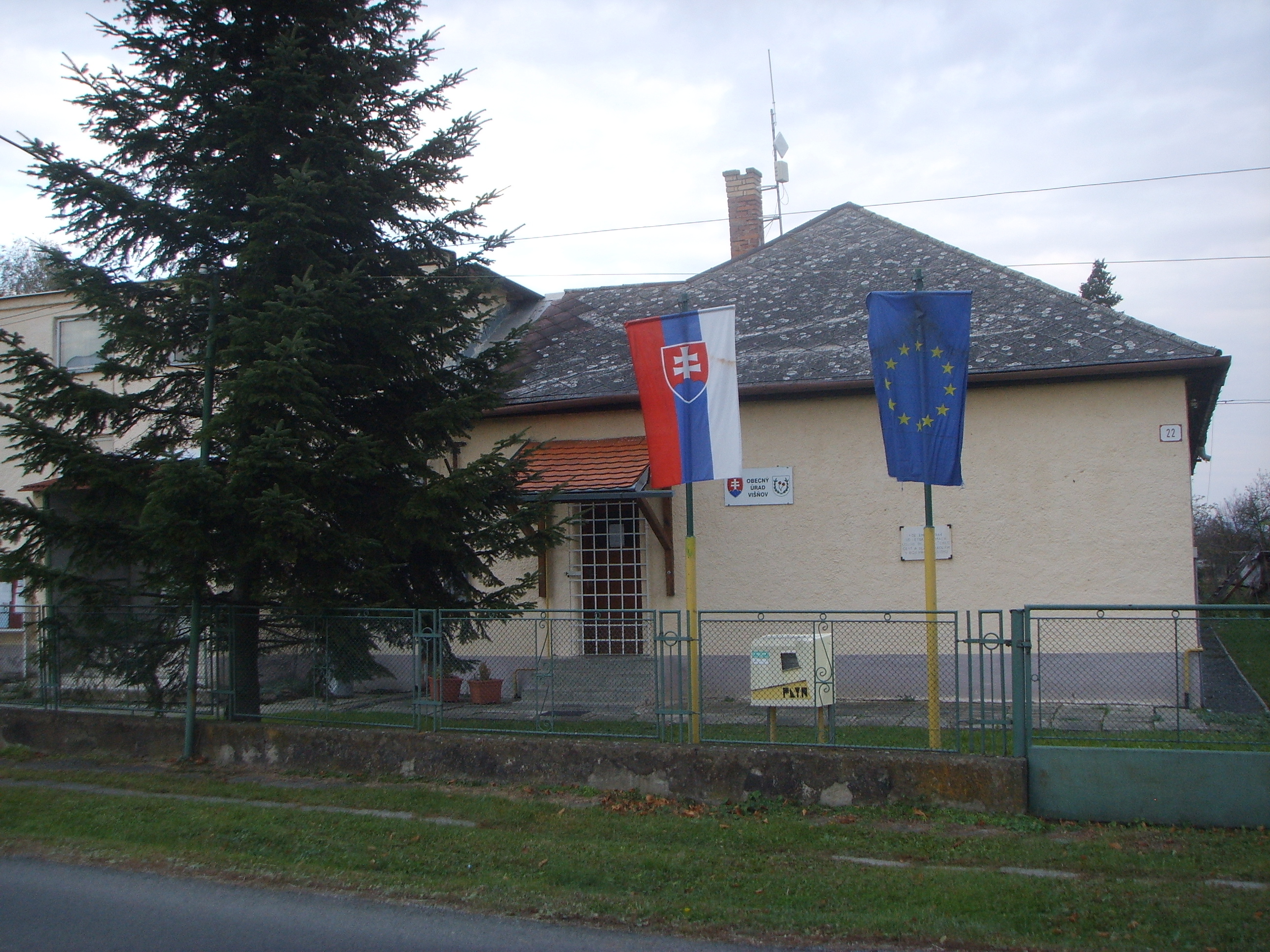 Municipal office in Višňov, district Trebišov, Slovakia